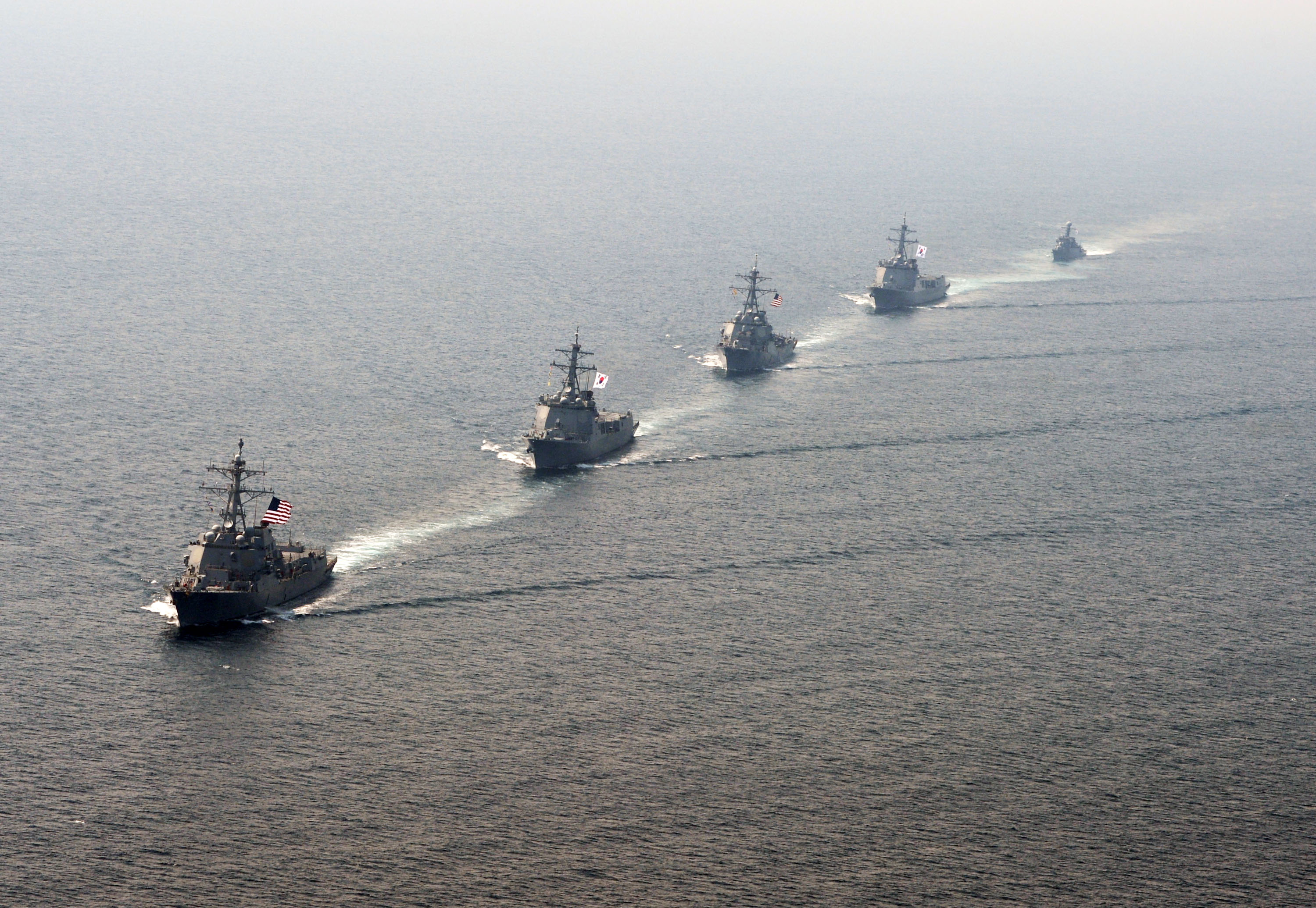 WATERS SURROUNDING THE KOREAN PENINSULA (May 21, 2016) – The guided-missile destroyer USS Momsen (DDG 92), left, Republic of Korea destroyer ROKS Seoae Ryu Seong-ryong (DDG-993), guided-missile destroyer USS Decatur (DDG 73), Republic of Korea destroyer ROKS Yulgok Yi (DDG-992) and Republic of Korea patrol craft ROKS Kwang Myung (PCC-782) steam in formation during a bilateral maneuvering exercise. The destroyers USS Spruance (DDG 111), Momsen and Decatur, with embarked “Devil Fish” and “Warbirds” detachments of Helicopter Maritime Strike Squadron (HSM) 49, are deployed as part of a U.S. 3rd Fleet Pacific Surface Action Group (PAC SAG) under Destroyer Squadron (CDS) 31. (U.S. Navy photo by Mass Communication Specialist 1st Class Jay C. Pugh/Released)160522-N-YU572-383 Join the conversation: navylive.dodlive.mil